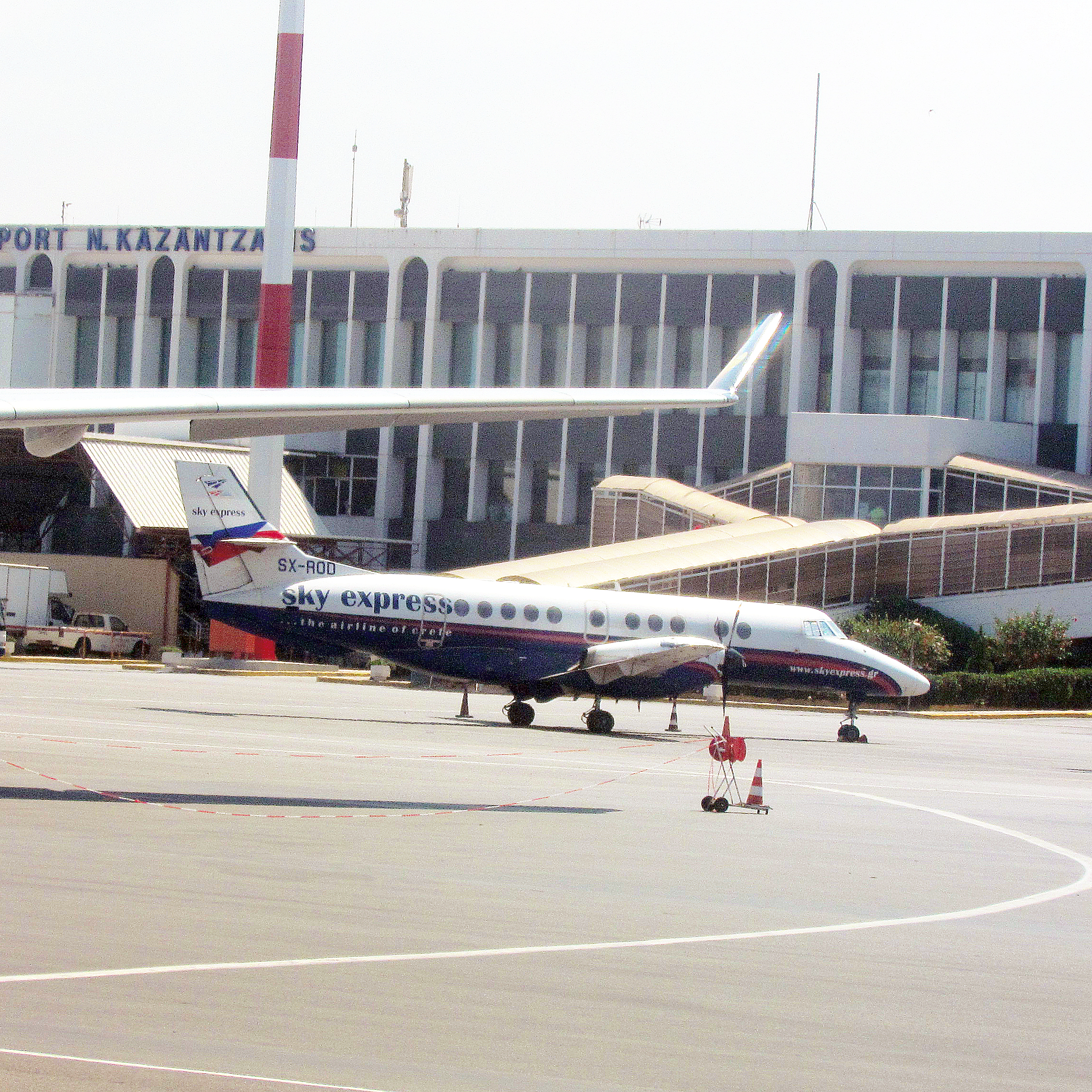 Sky express BAe Jetstream 41 at Heraklion International Airport